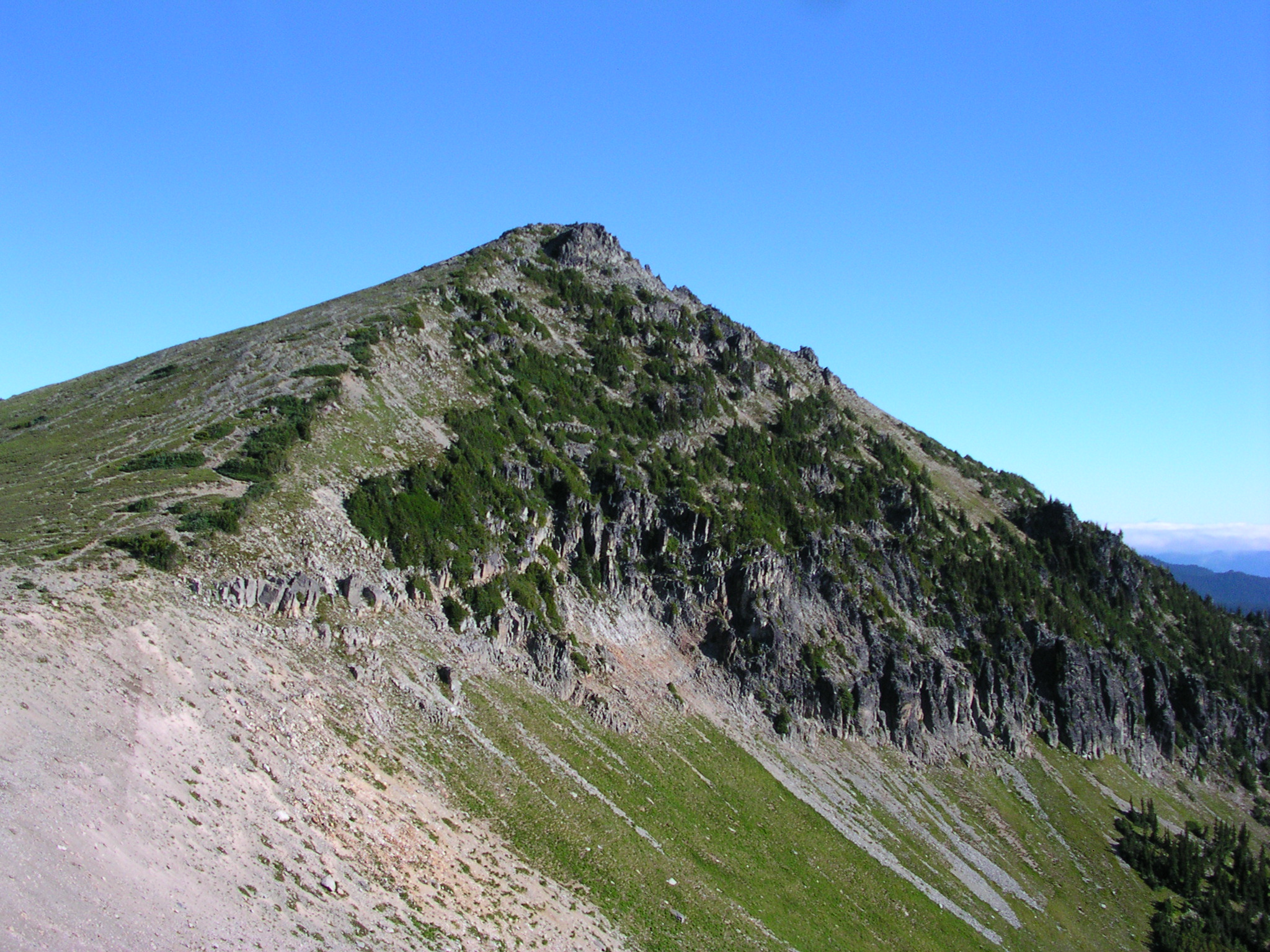 Skyscraper Mountain in Mount Rainier National Park